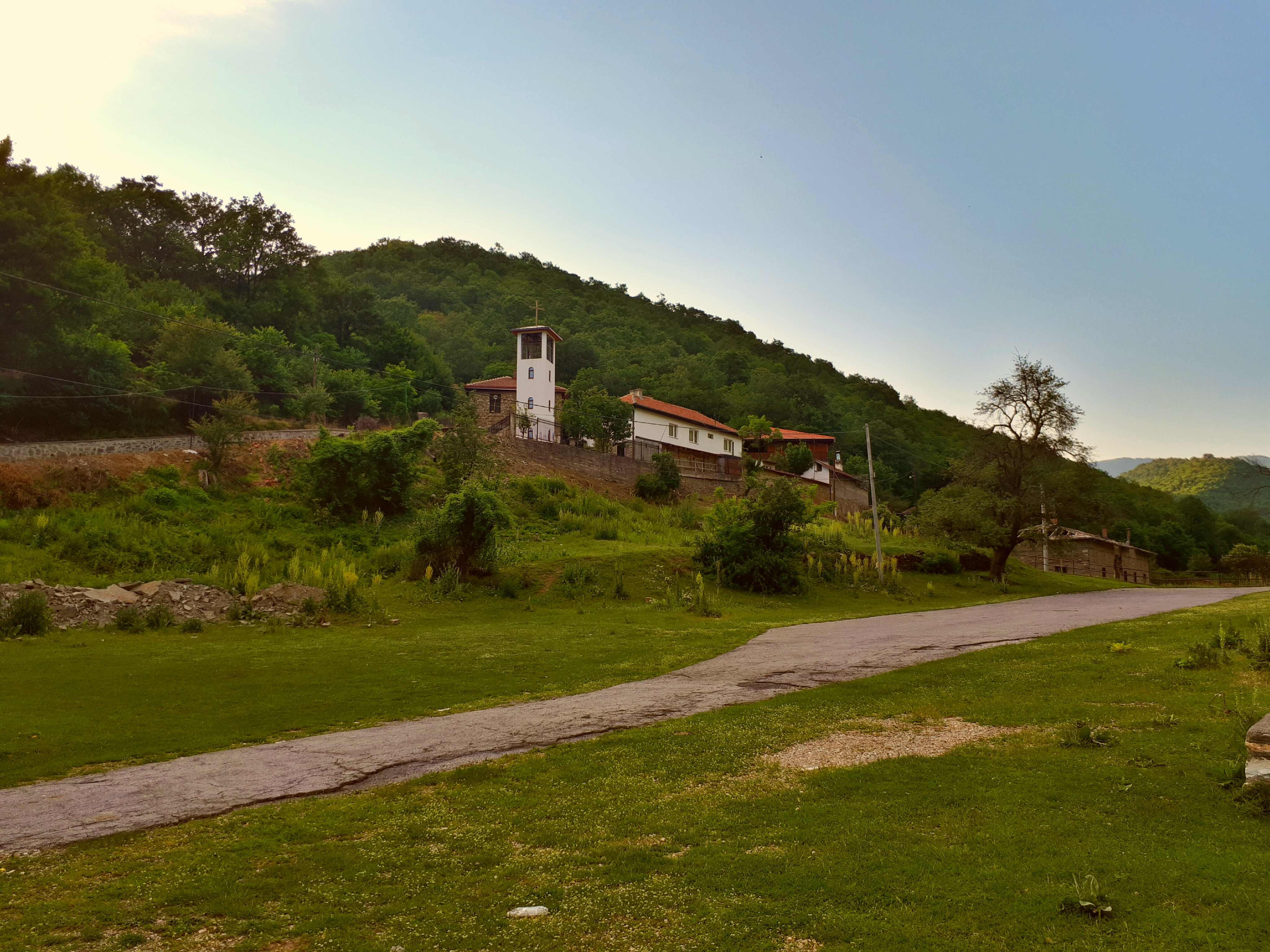 View of the Kučevište Monastery